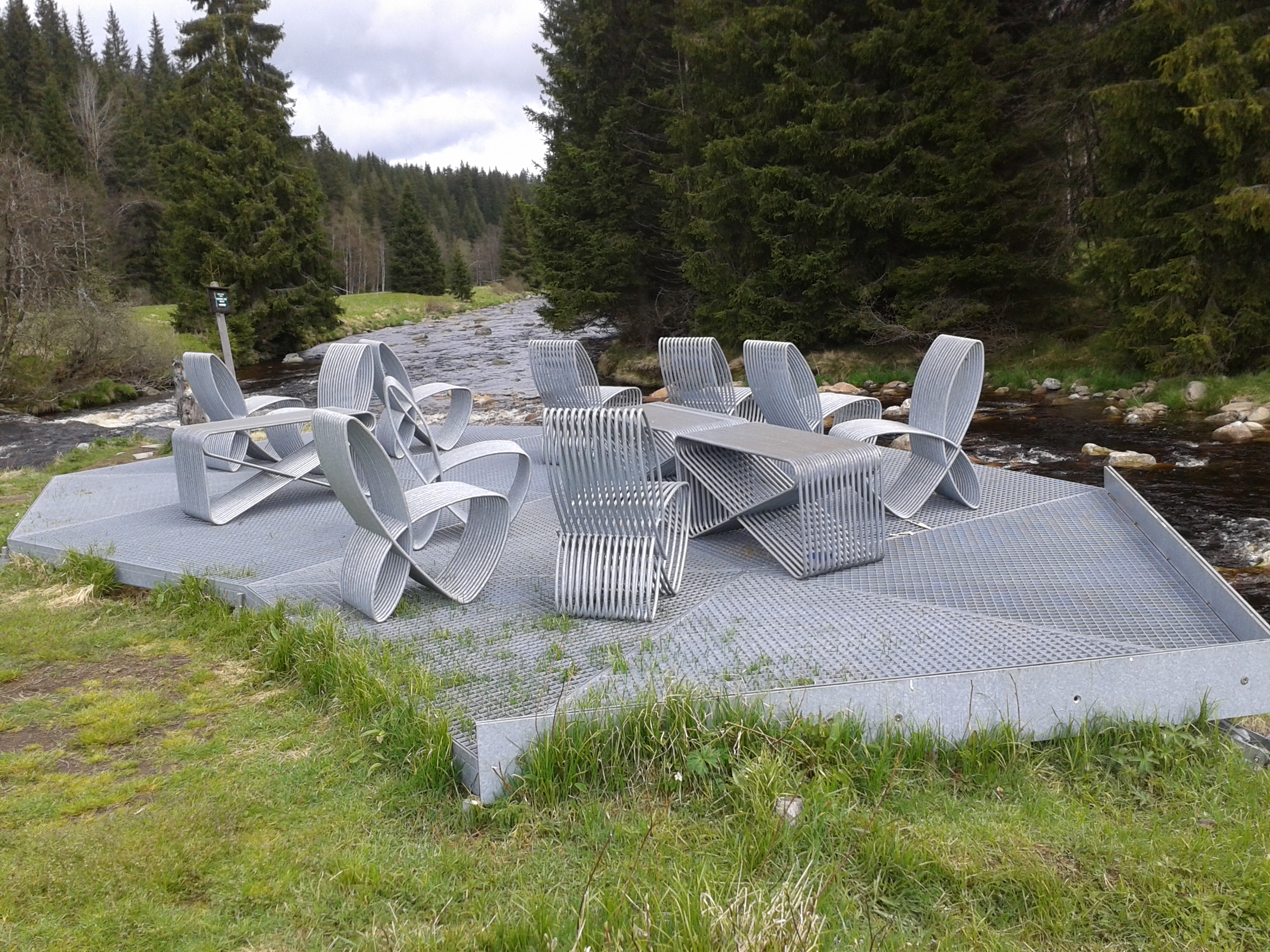 Jan Šepka (* 29 October 1969, Prague) installation "Room in Landscape", Šumava, Modrava, Czech Republic, 2009 - 2010.